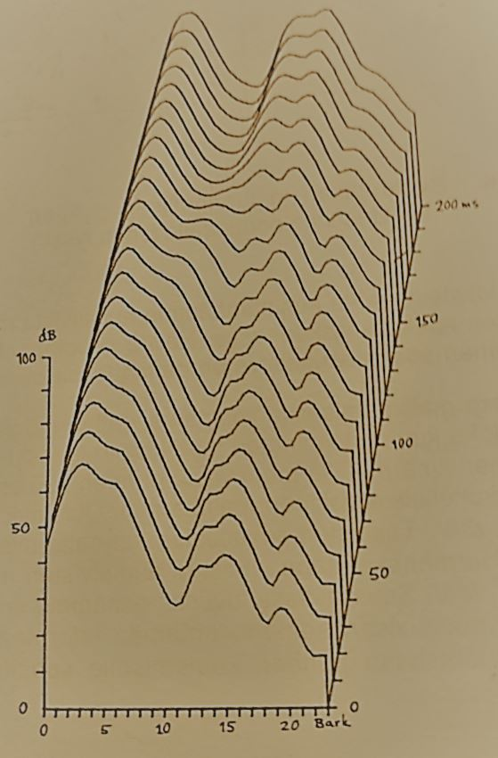 Auditory spectral series from the Finnish word "ui" produced in 1983 at the Helsinki University of Technology with a 48-channel Bark scale filter bank. Bark scale on the horizontal axis and dB scale on the vertical axis.